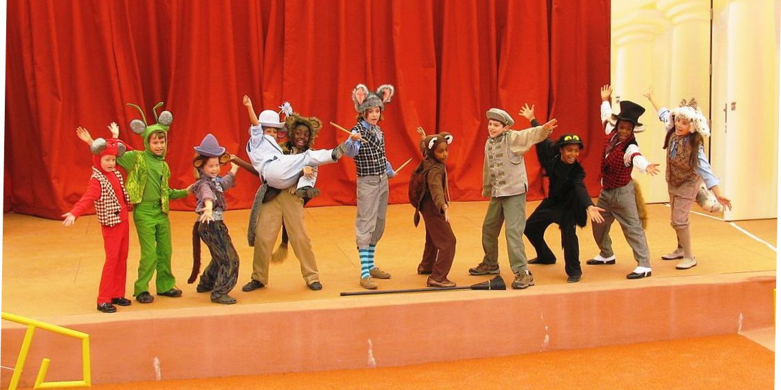 Finale of "Aesop's Fables," performance at Children's Fairyland, Oakland CA